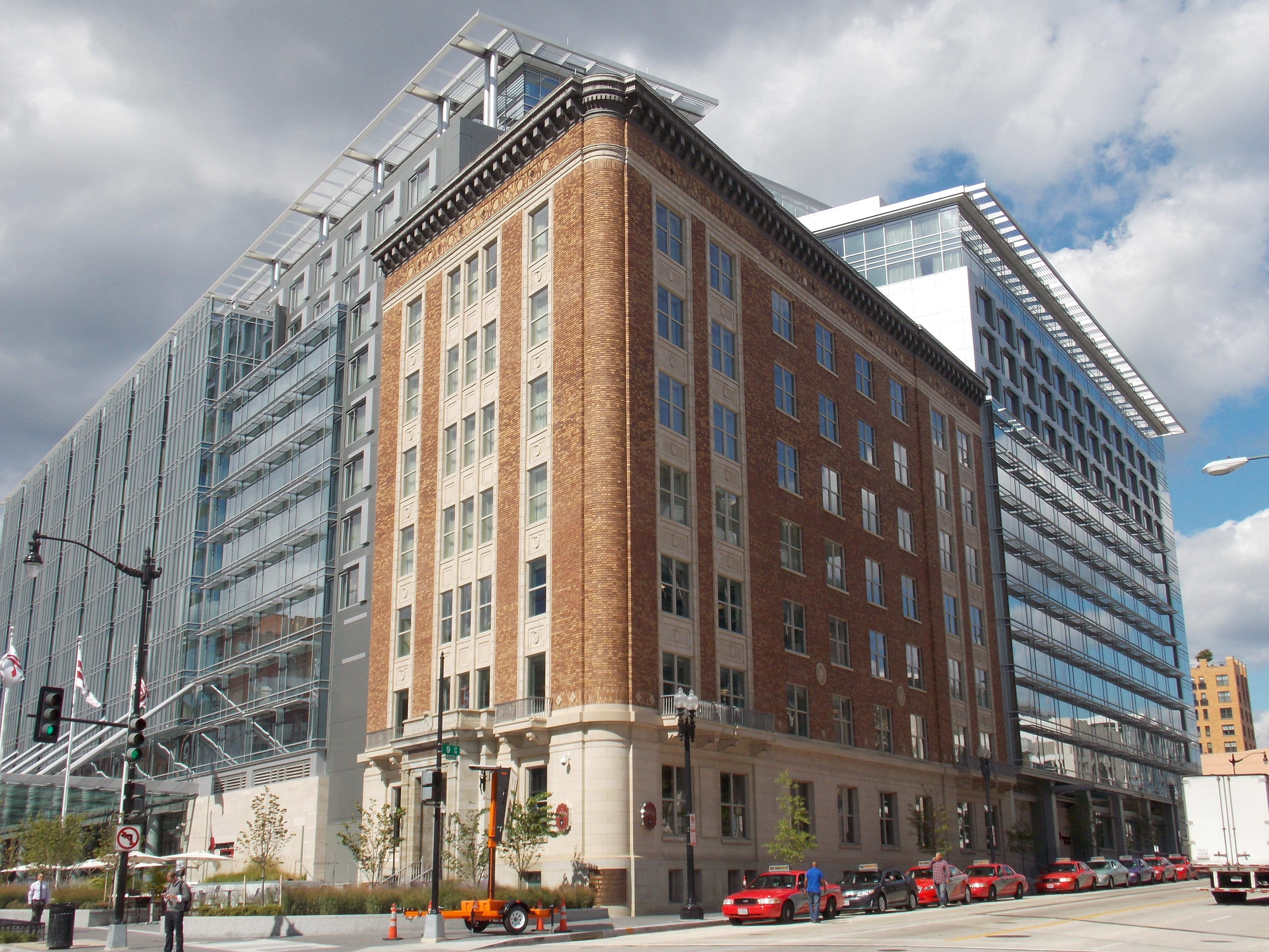 Washington Marriott Marquis in downtown Washington, D.C.